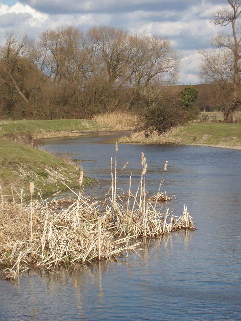 River Colne on Staines Moor, with bullrushes. "Staines Moor is one of the remaining "Commons" of the medieval Manor of Staines. Originally a clearing in the Forest of Windsor it has remained unploughed for over 1000 years. The moor has been registered Common land since 1065 and only registered Commoners are entitled to graze their animals on it." Information from "How do I get to Staines Moor" from Spelthorne Borough Council.